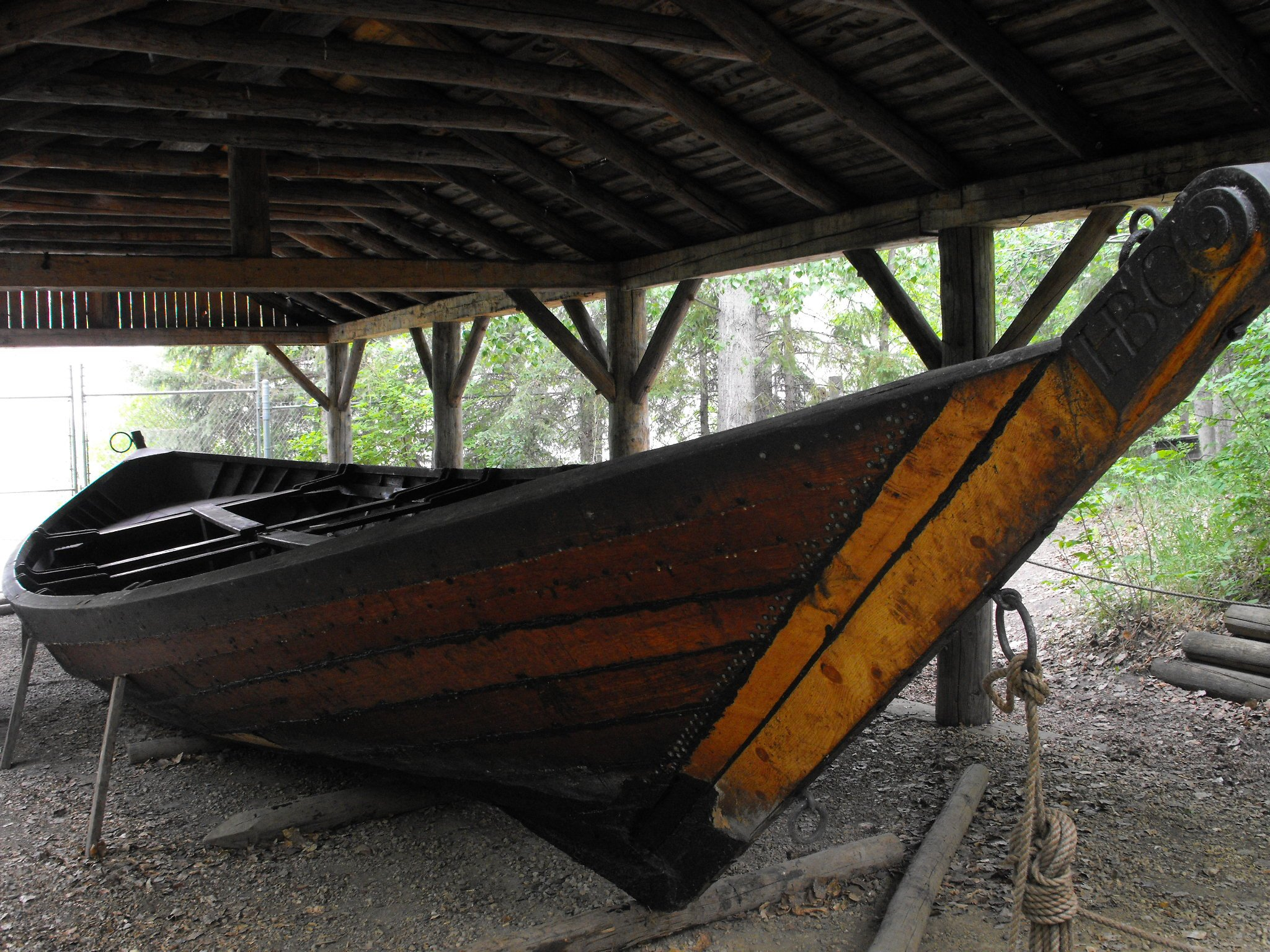 York under weather-protective roof, Fort Edmonton Park, Edmonton, Alberta.